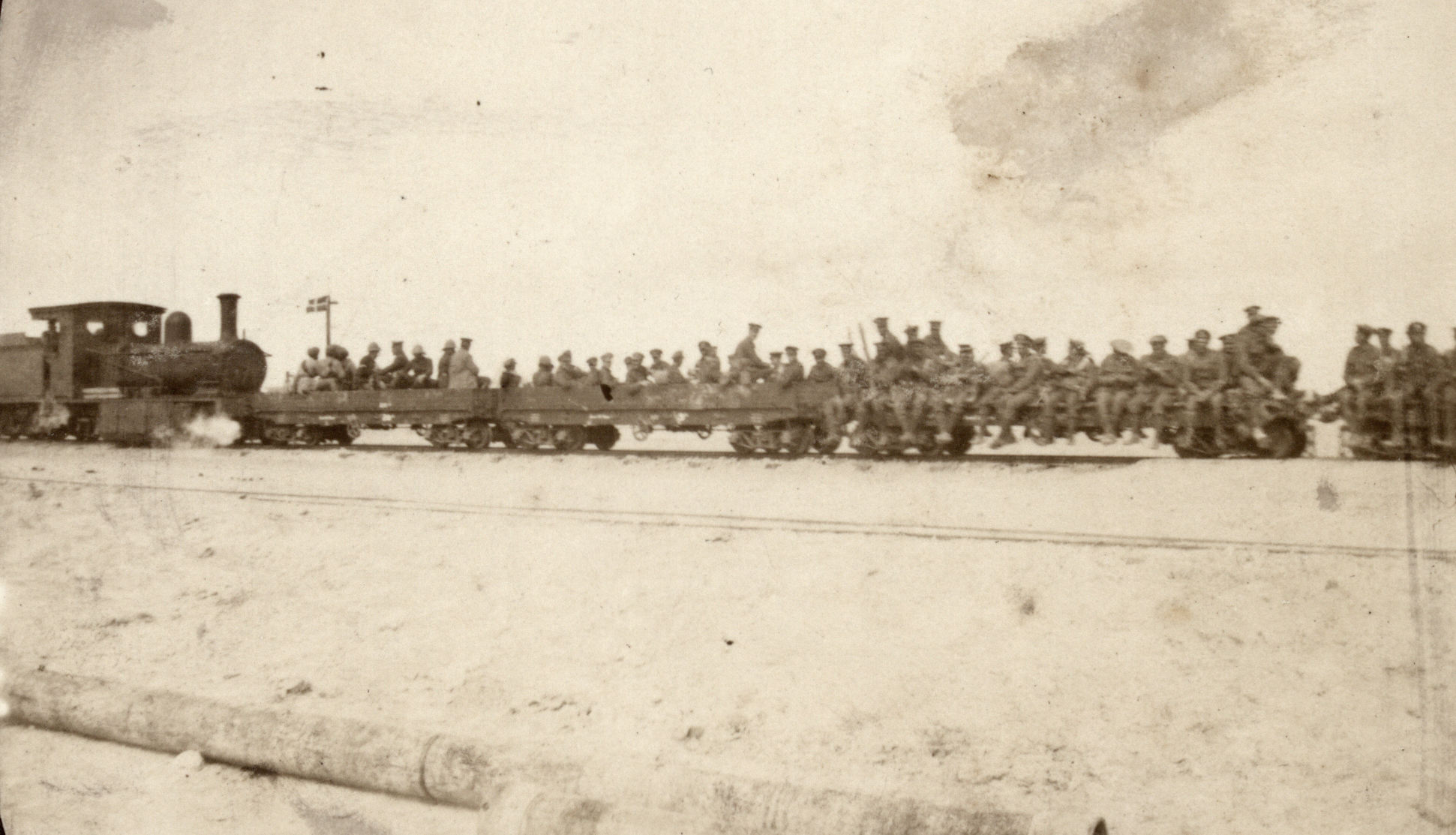 A train on a light rail pushing trucks carrying British soldiers along the Suez Canal, 1916 (or according to Iain Logie on the Baharia Military Railway).[1] References ↑ Iain Logie: Light railways of the Egyptian Expeditionary Force 1915-18 (Part 3: The railways of the Western Desert). In: The Narrow Gauge, Issue 240.